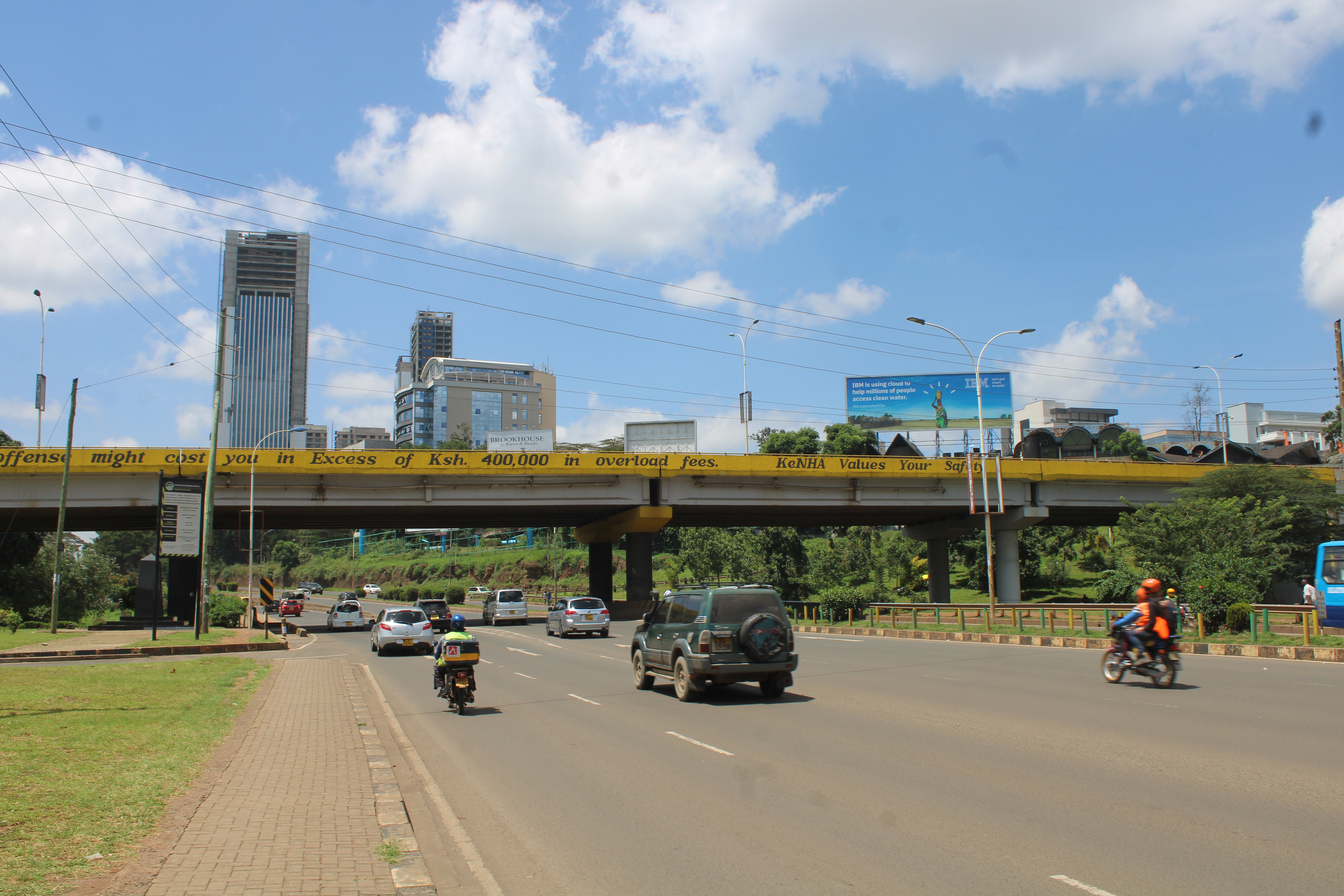 This is an image with the theme "Africa on the Move or Transport" from: Kenya